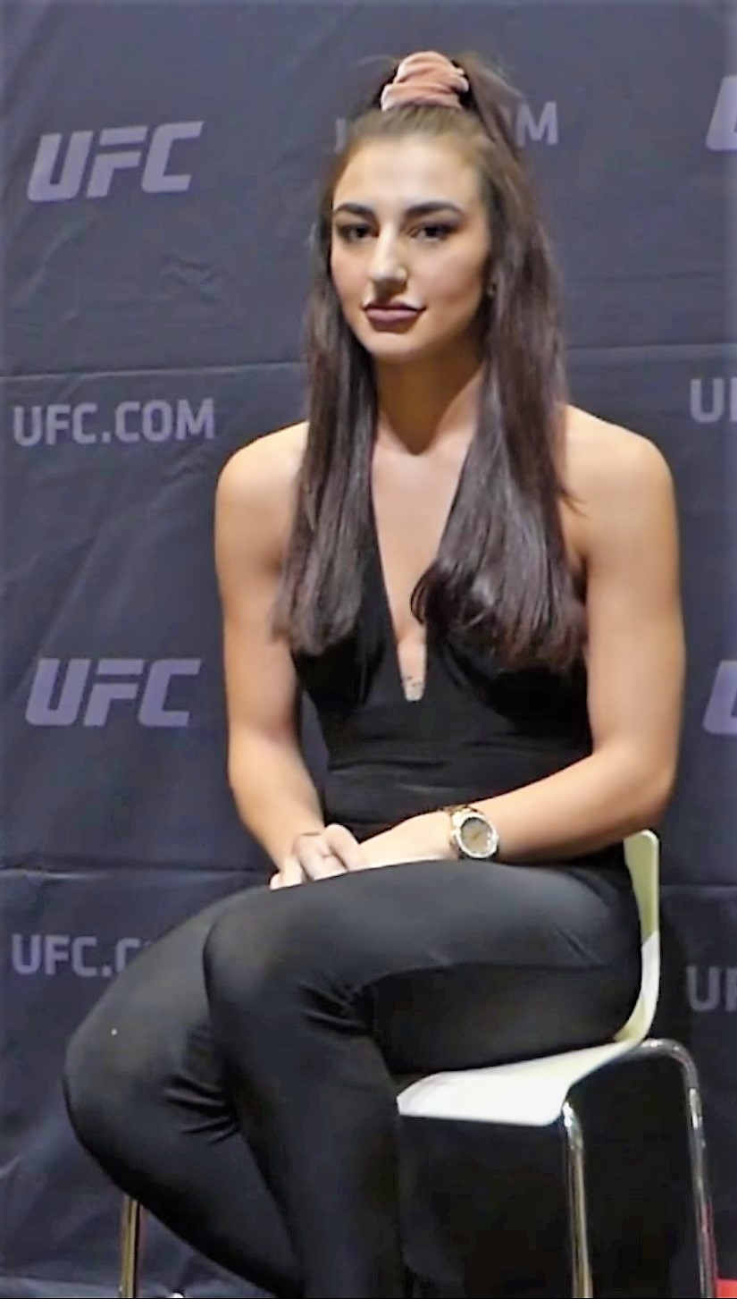 NADIA KASSEM EXCITED TO GET BACK INTO THE CAGE | UFC 234 Undefeated Nadia Kassem is finally back in the octagon being out with an injury. She faces Montana De La Rosa on UFC 234: Whittaker vs. Gastelum. Visit Europe's biggest MMA website Follow us on our Social Media channels: Facebook: Instagram: Twitter